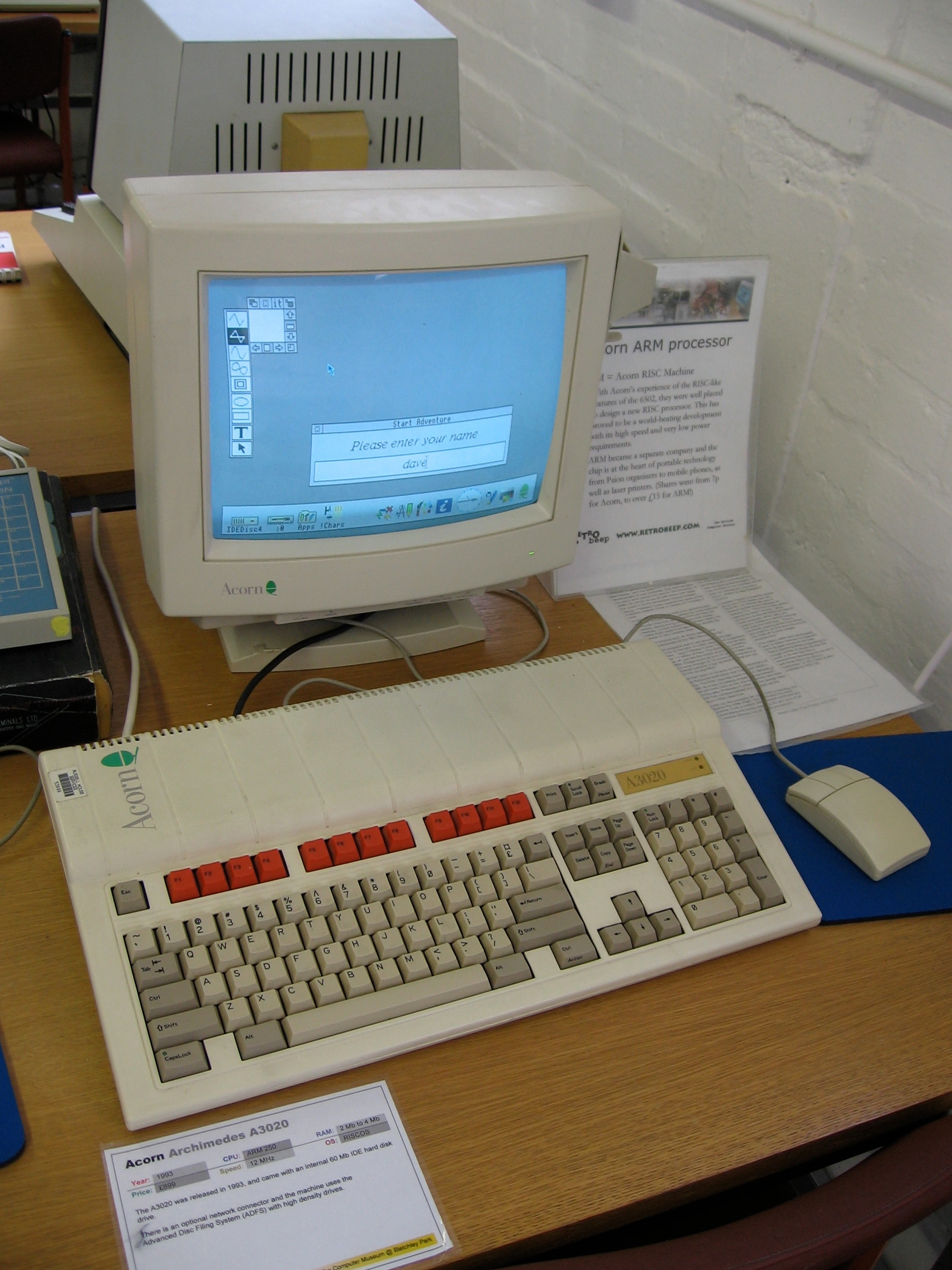 Acorn Archimedes A3020 at National Museum of Computing, Bletchley Park.